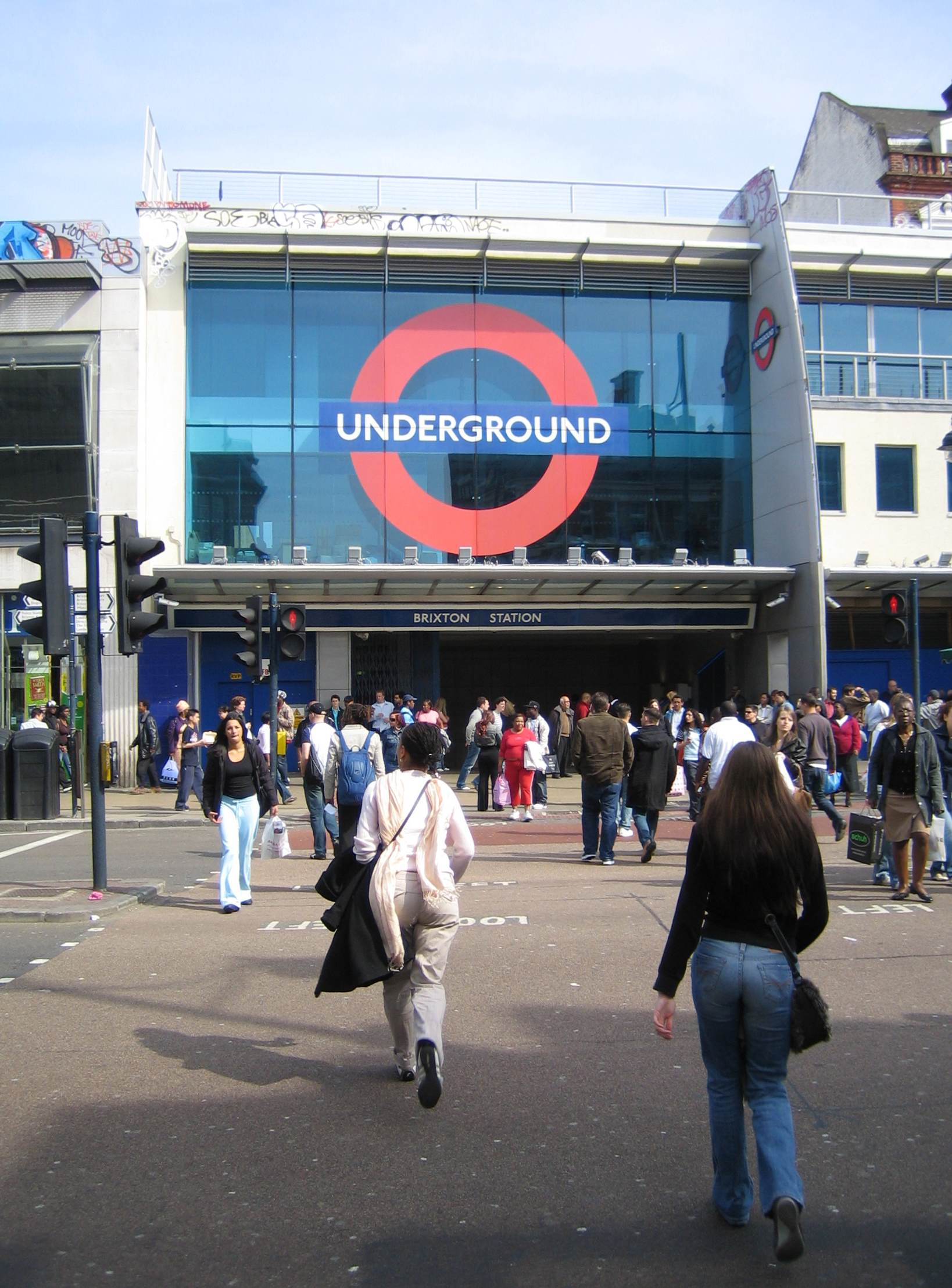 Brixton Tube station, front view